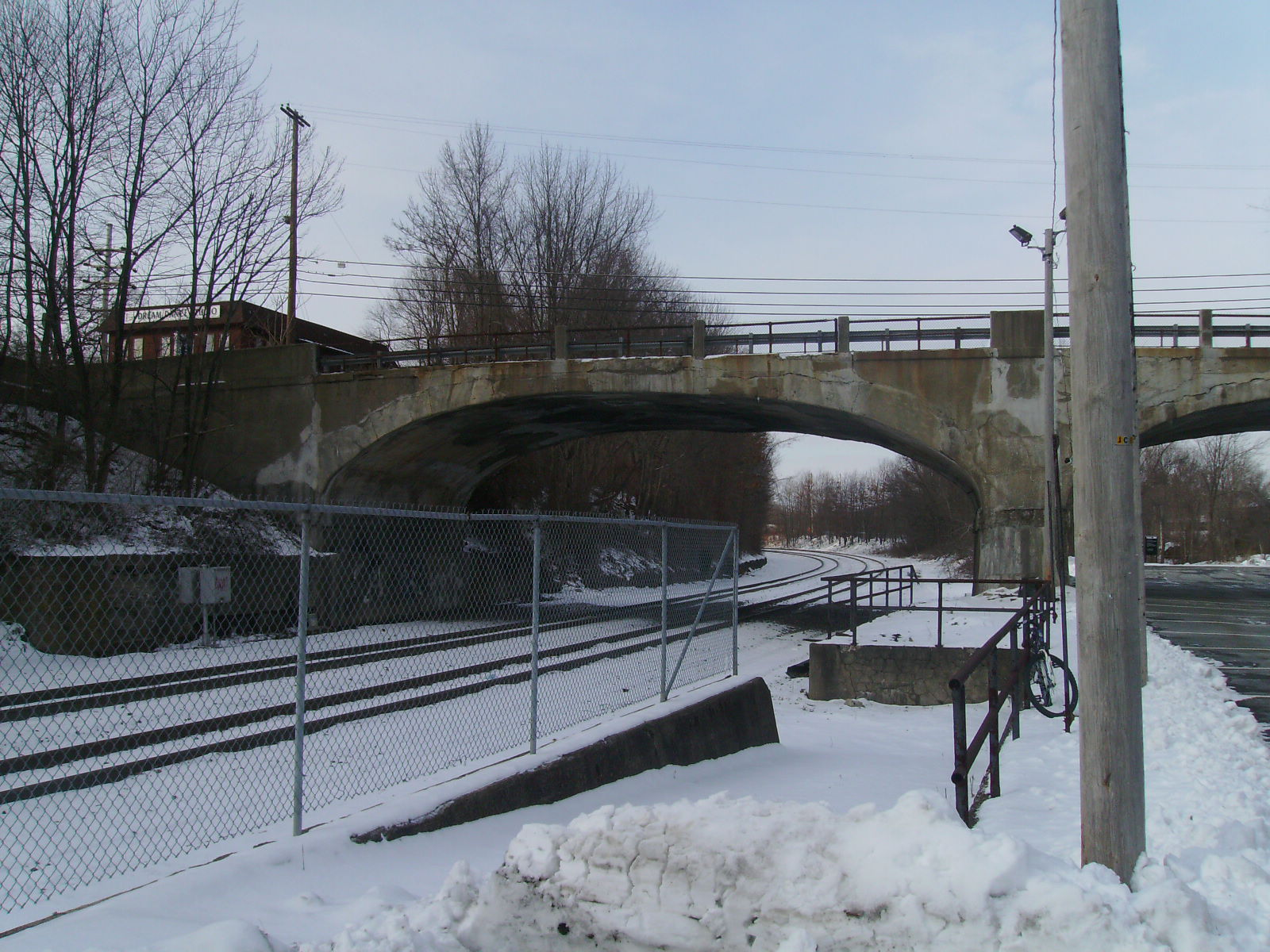 The Landing Road Bridge close-up over the Morristown Line and its Lake Hopatcong Station parking lot.